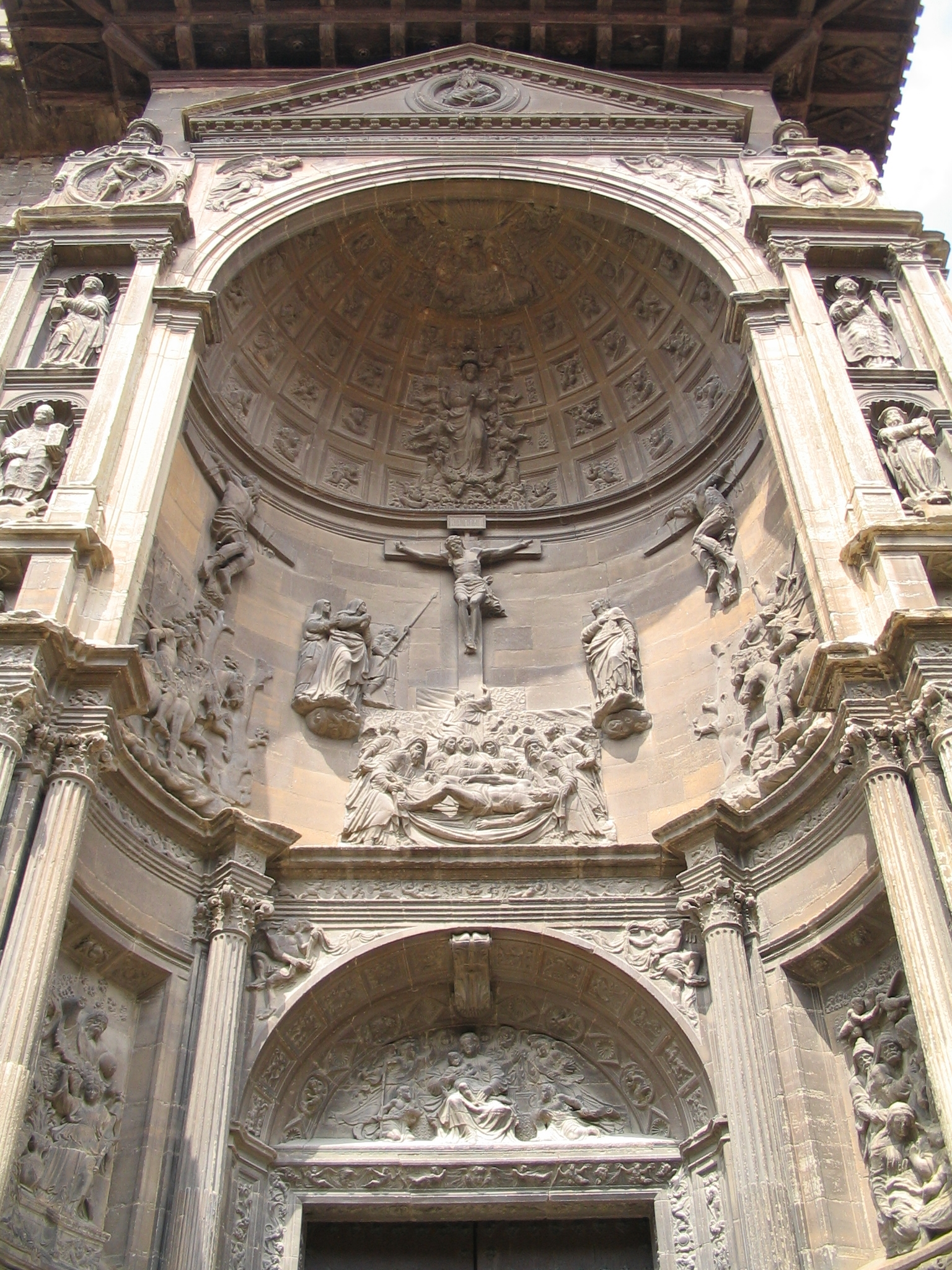 Portal in church in Viana